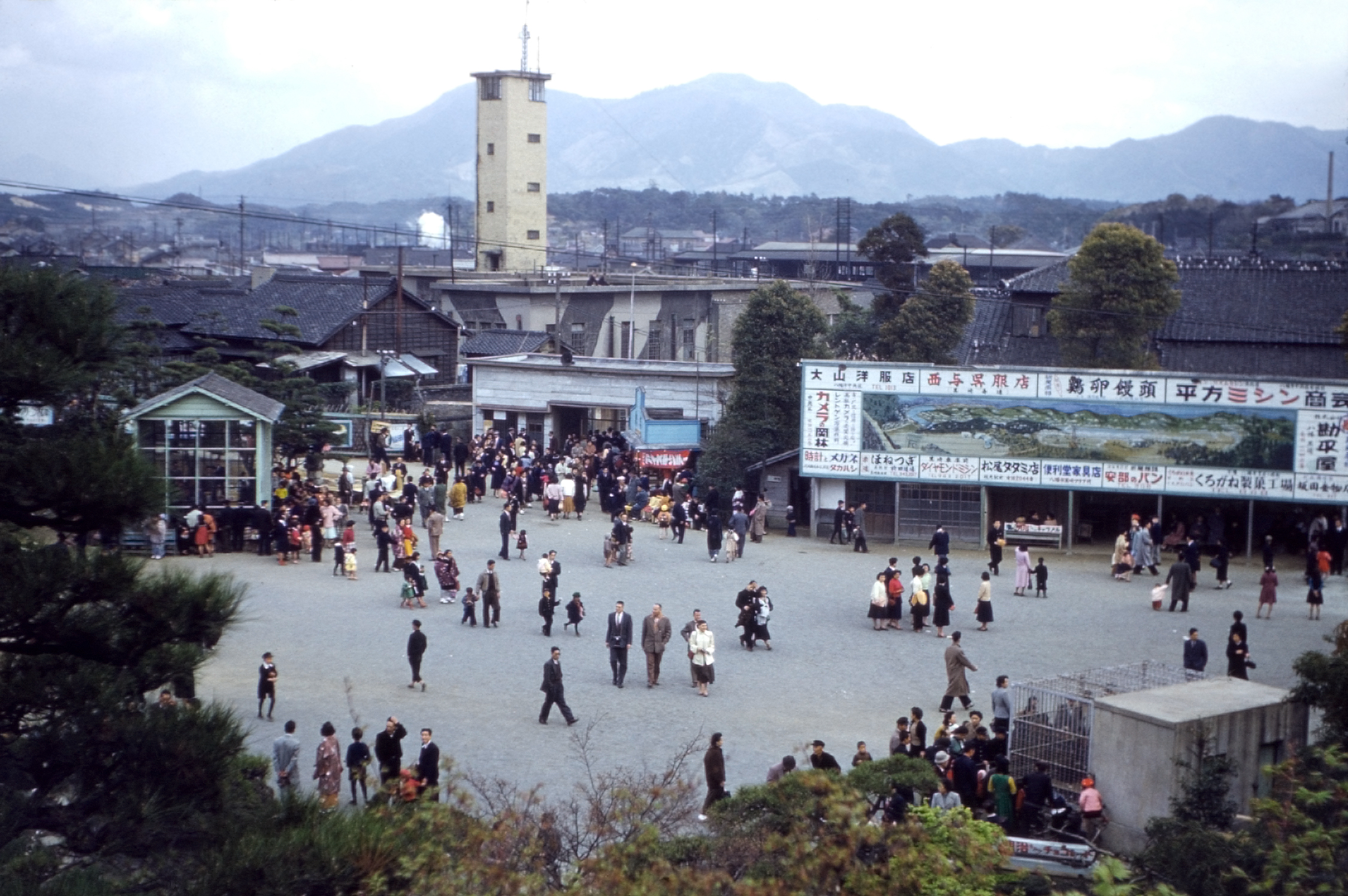 Cherry Blossom Festival in Orio Park, April 1955. New scan from a 57-year-old Kodachrome slide.